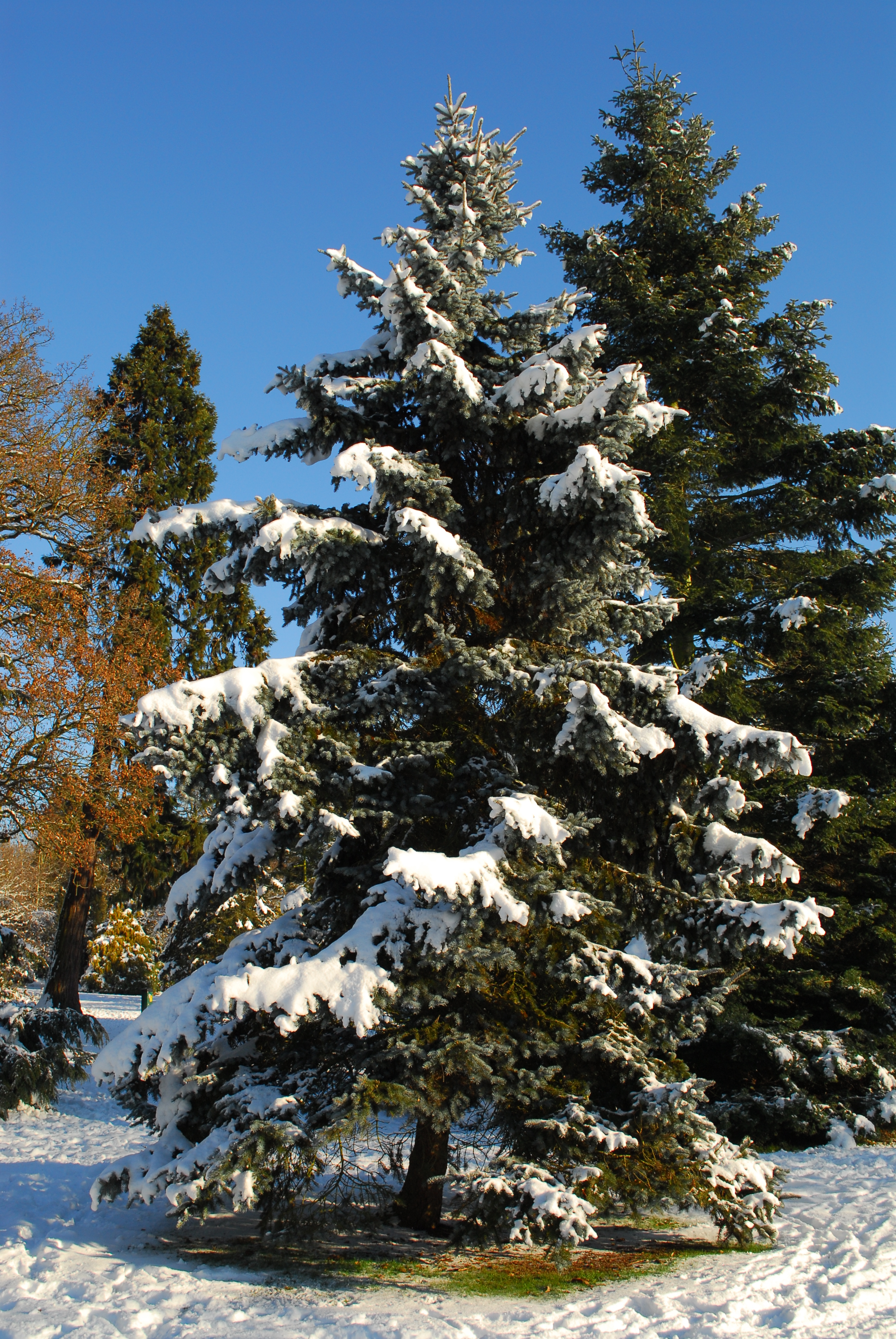 Christmas tree snow